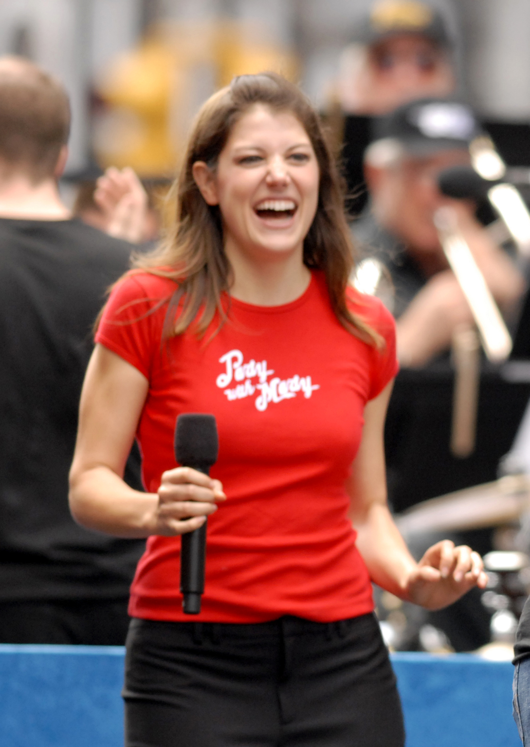 Nicole Parker and the cast of Martin Short: Fame Becomes Me performs "Stop the Show" at Broadway on Broadway, September 10th 2006.